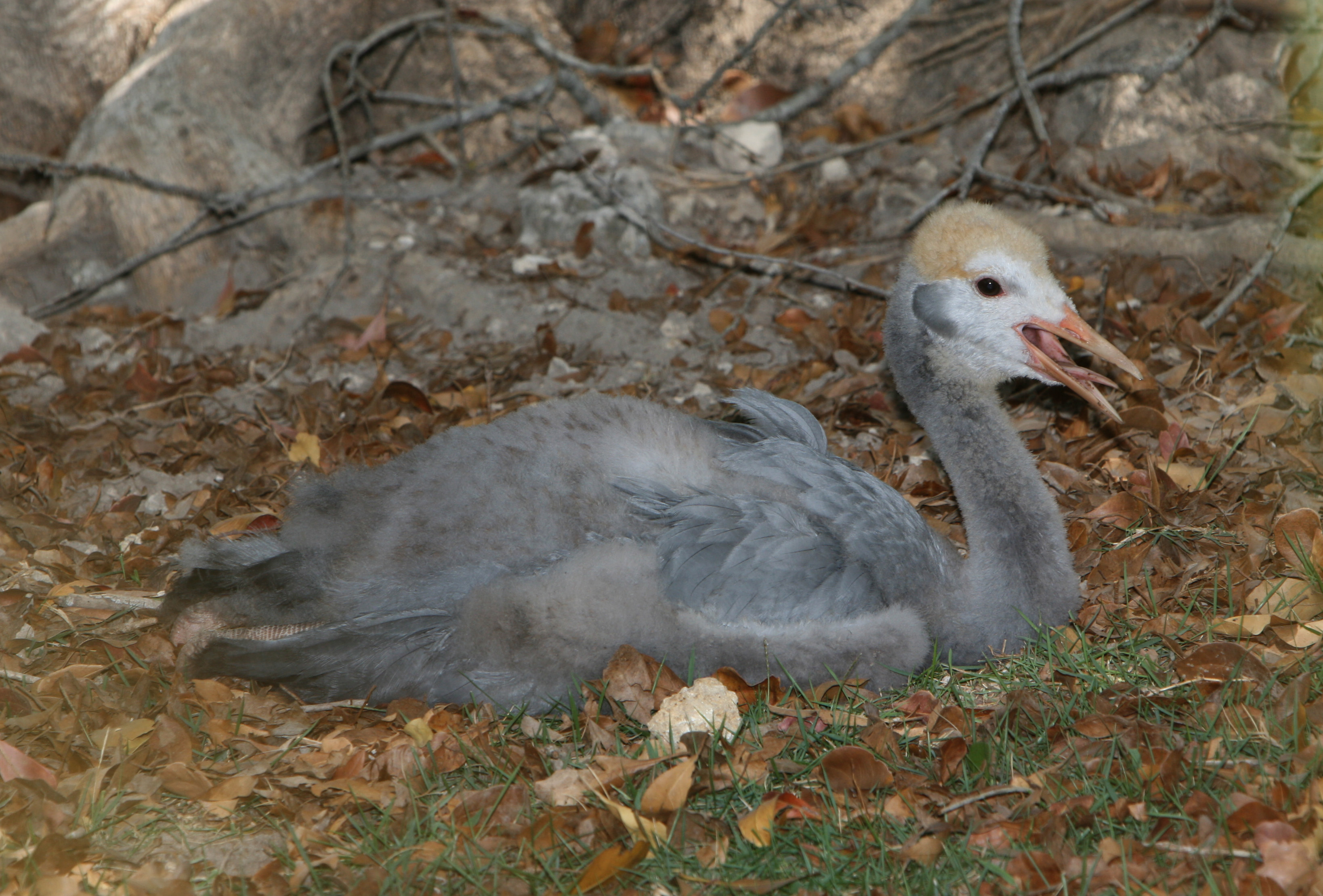 Juvenile Blue Crane, better known as a Stanley Crane.